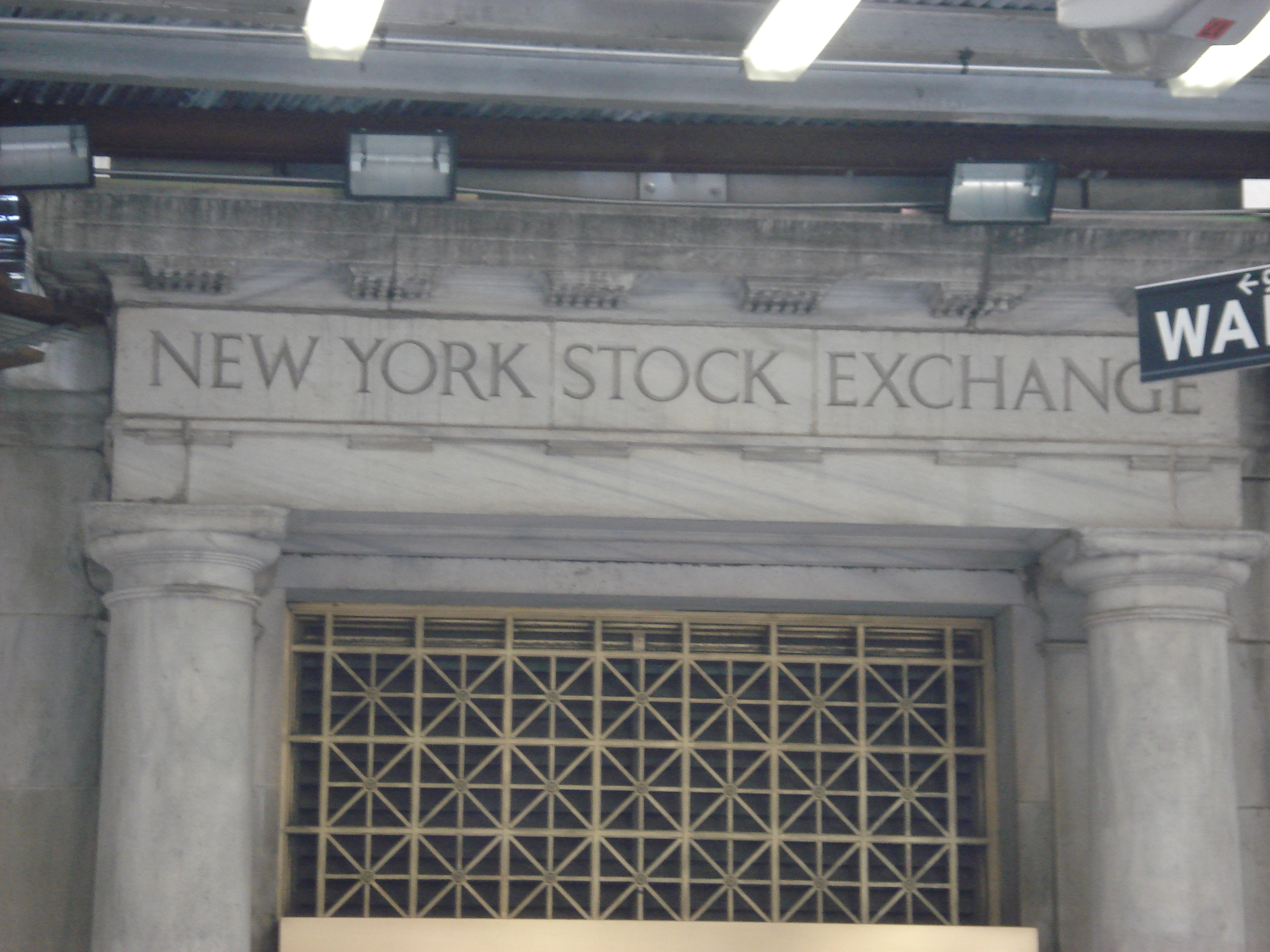 New York Stock Exchange